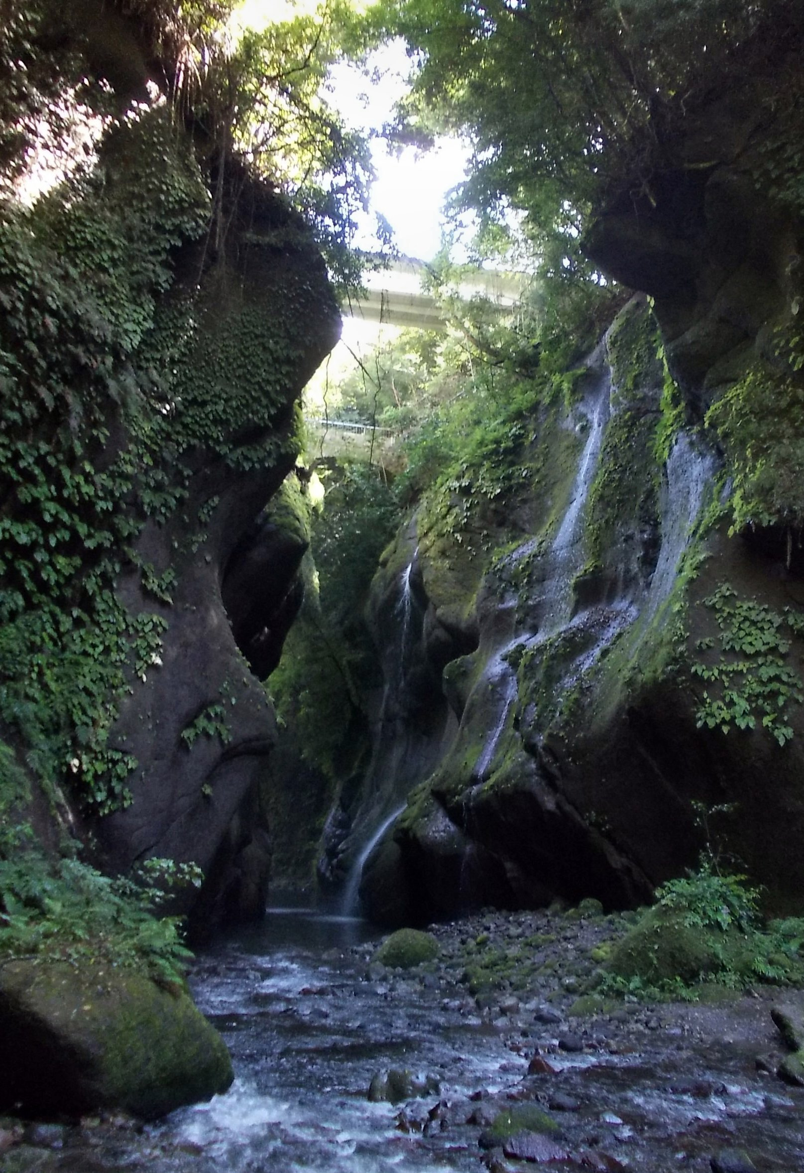 Yufugawa Valley is a valley located between Beppu and Yufu, Oita prefecture, Japan